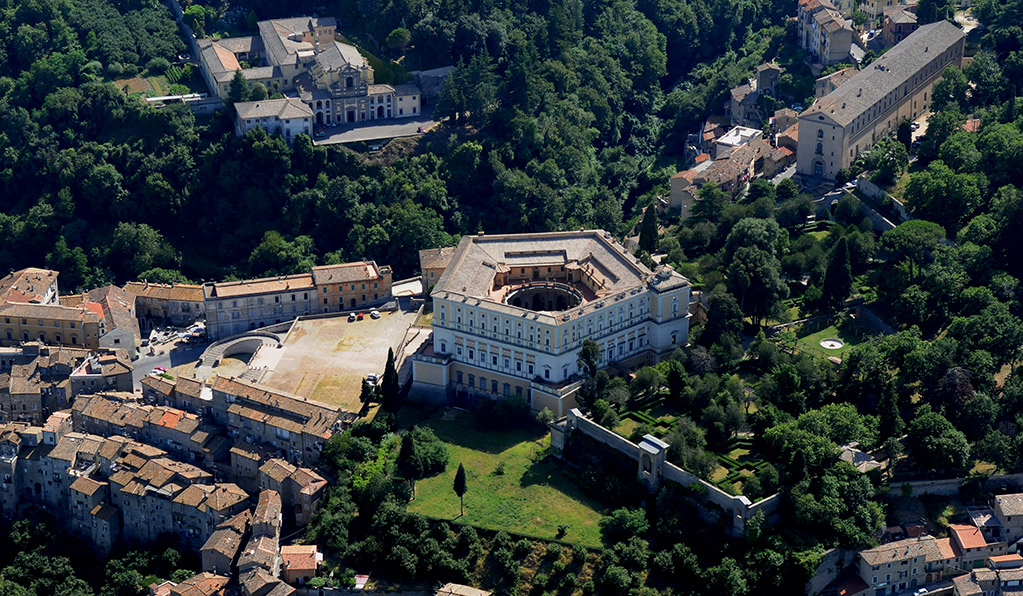 Palazzo Farnese aerial view